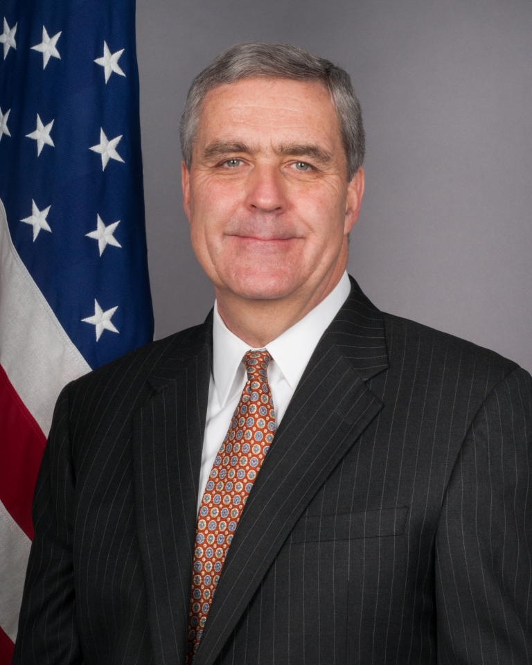 Portrait of Ambassador Douglas Lute